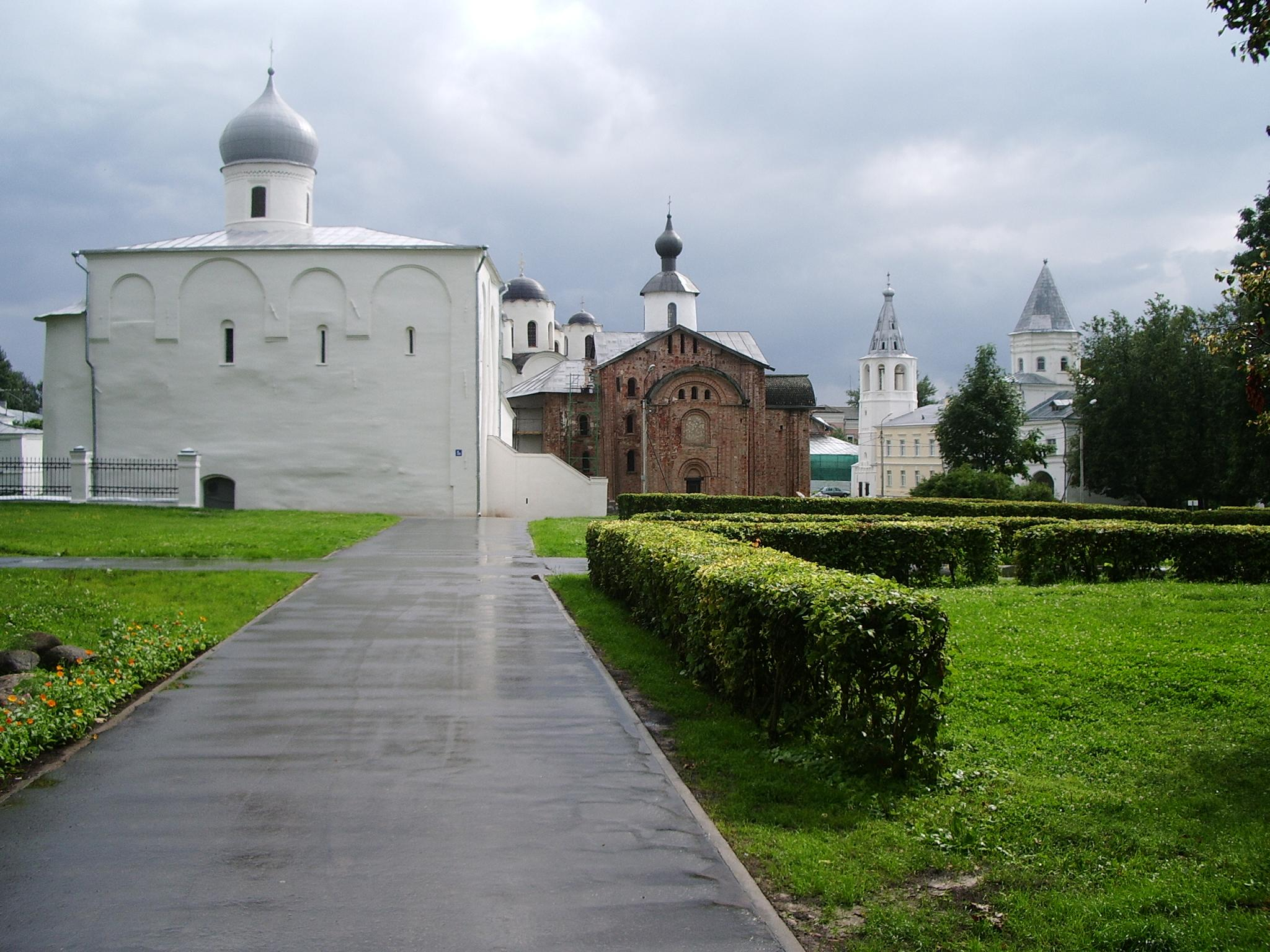 Yaroslav court in Velikiy Novgorod